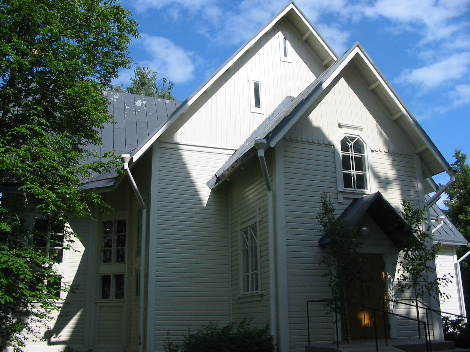 Paattinen church in Turku, Finland